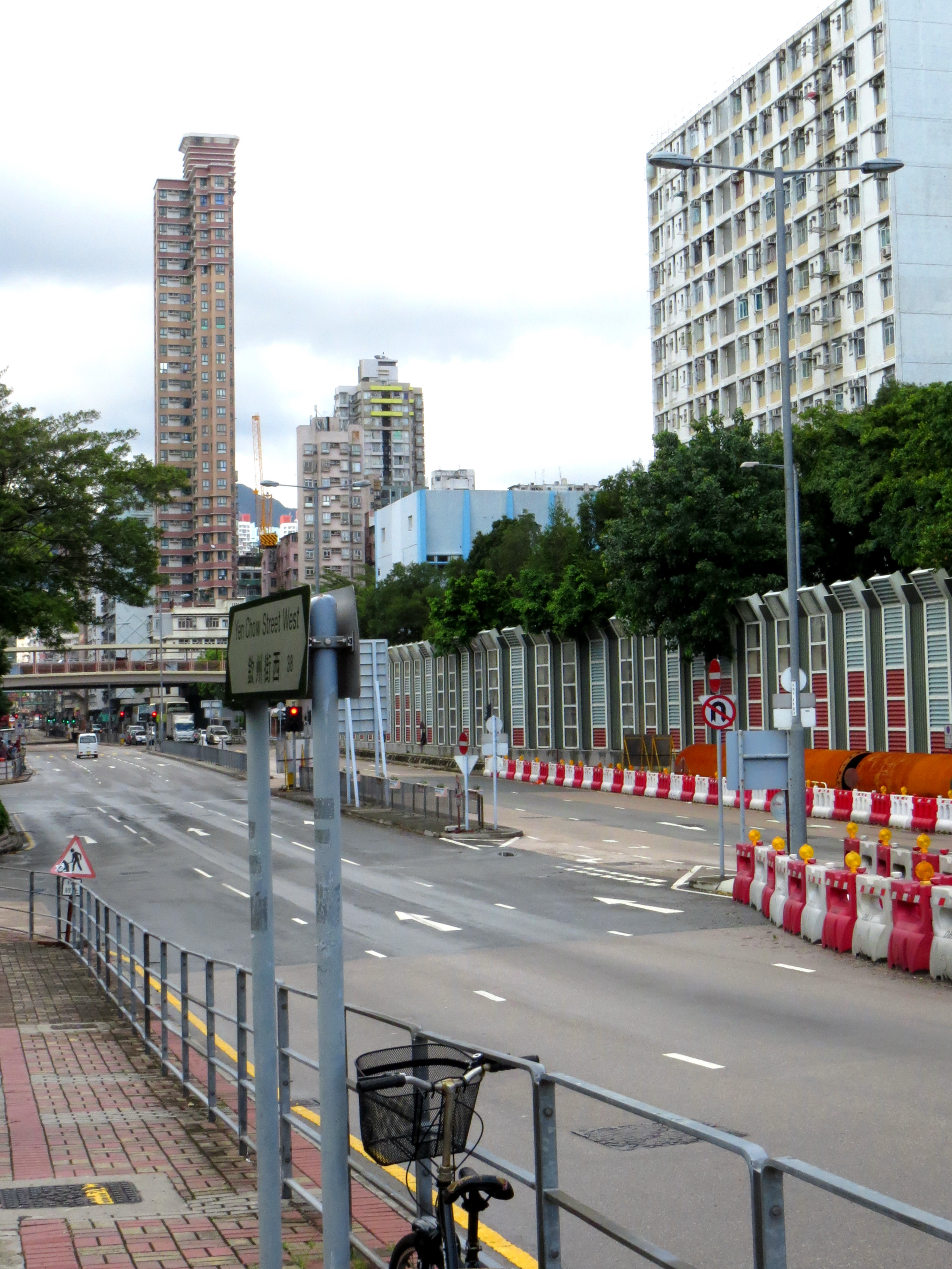 Yen Chow Street West near Sham Mong Road, Sham Shui Po, Kowloon, Hong Kong.